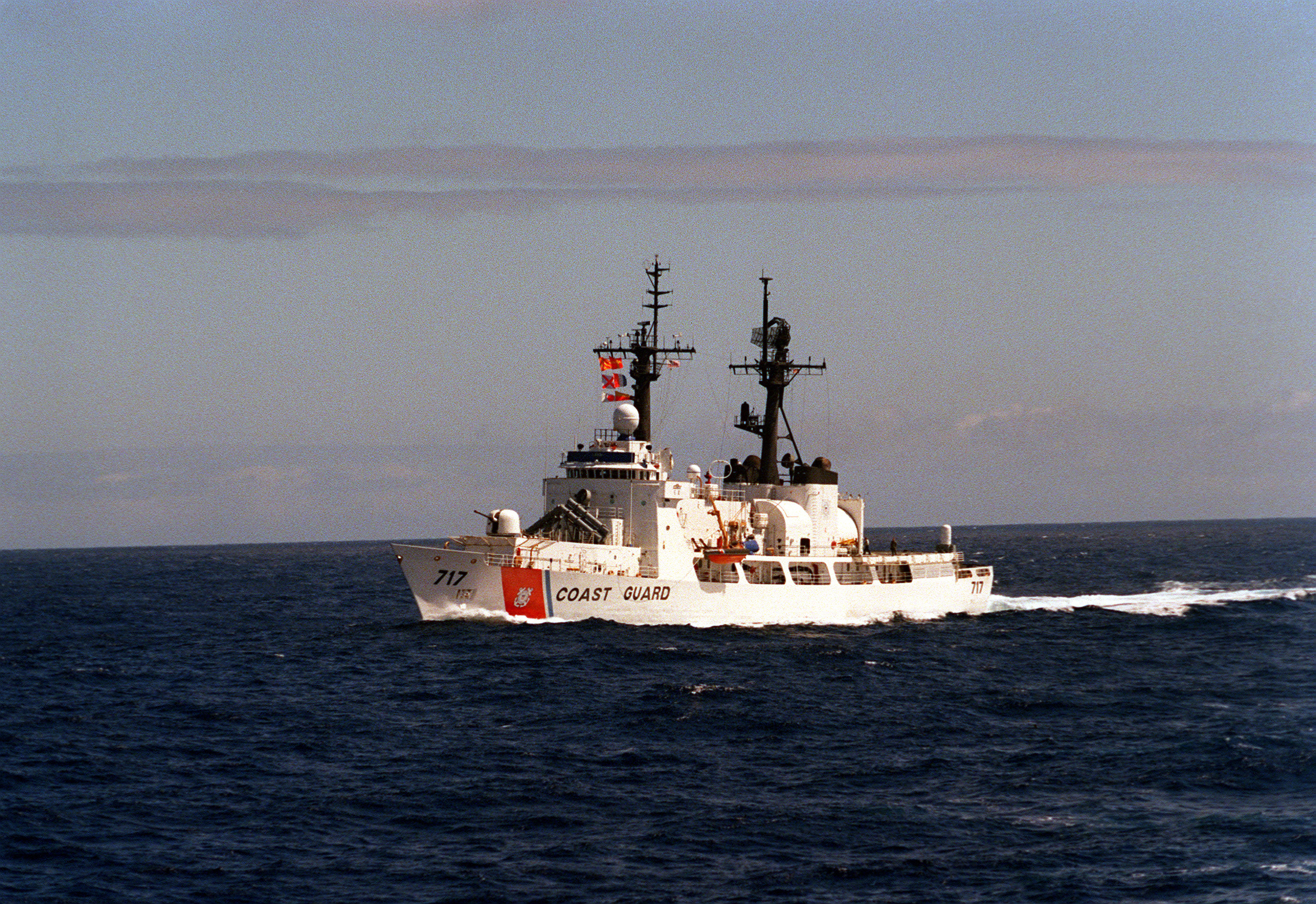 A port bow view of the high-endurance cutter USCGC MELLON (WHEC-717) underway off the coast of southern California.